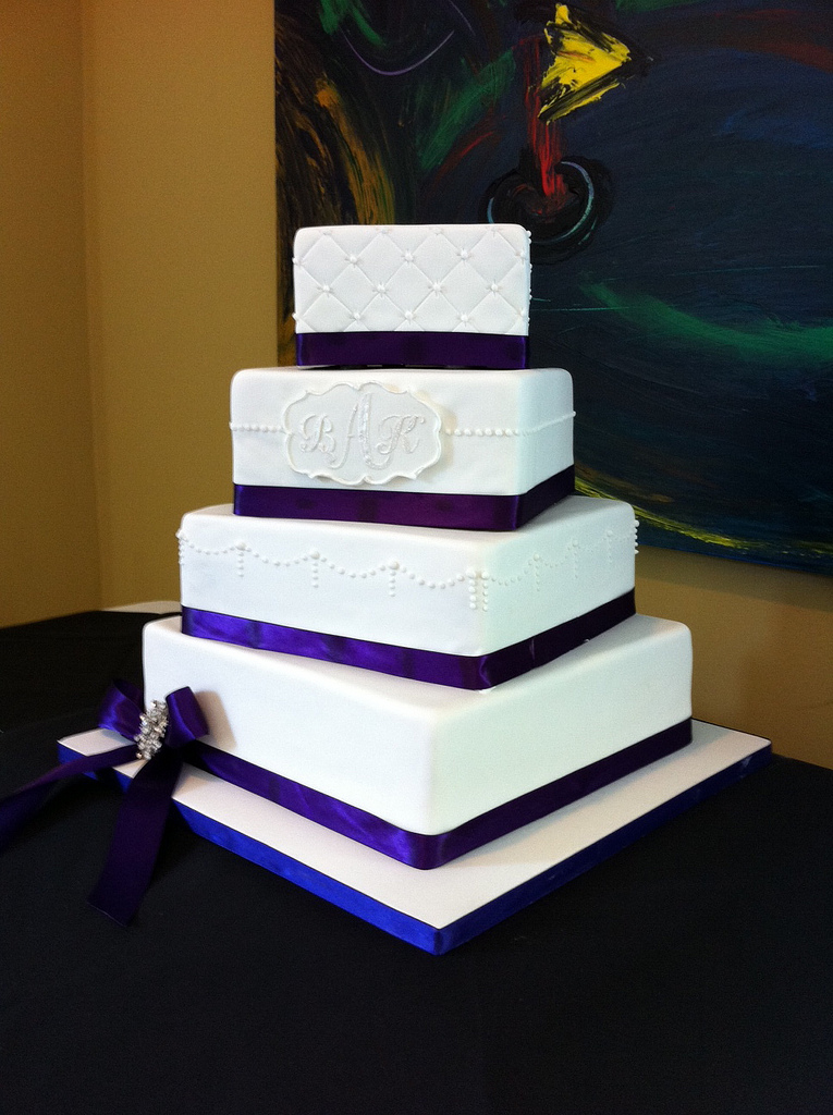 Wedding cake: Alternating square tiers of vanilla cake with Swiss meringue buttercream filling and chocolate-espresso cake with cream cheese filling. Covered in white fondant and decorated with royal purple satin ribbon, piping, a monogram and brooch at the bottom tier.